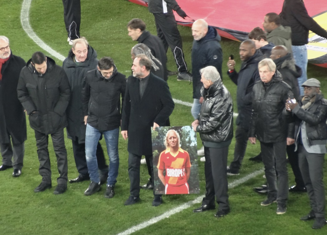 Honour to Daniel Leclercq